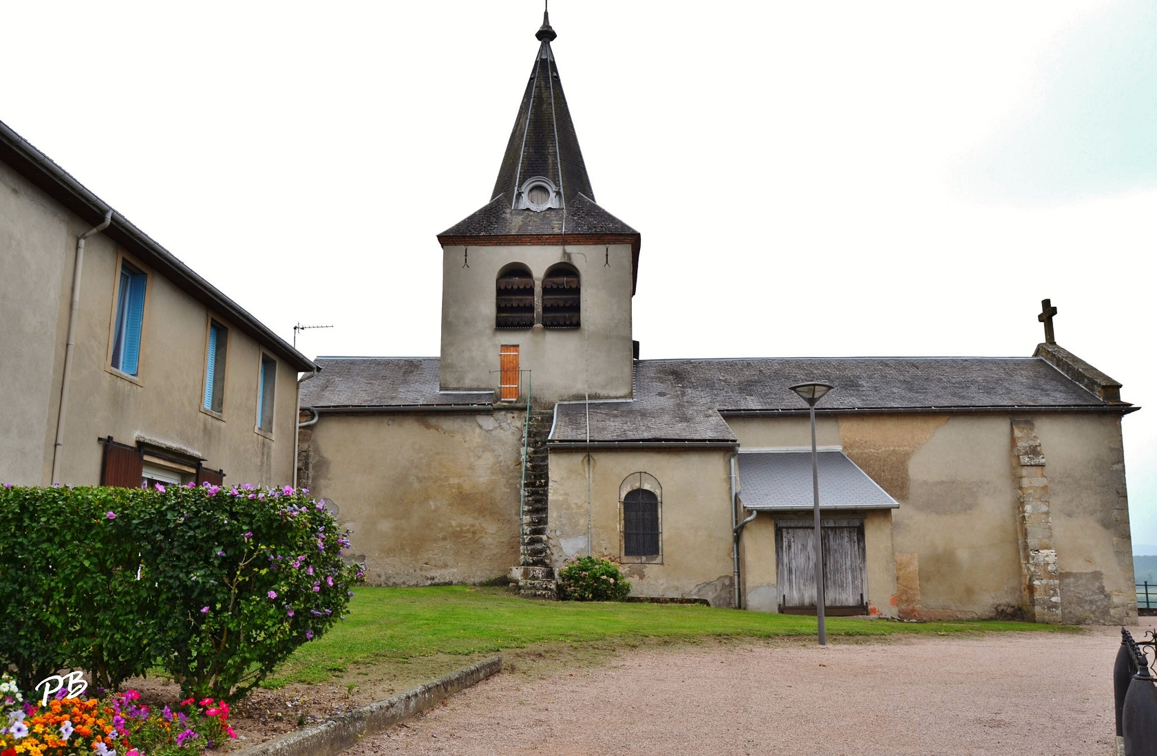 L'église